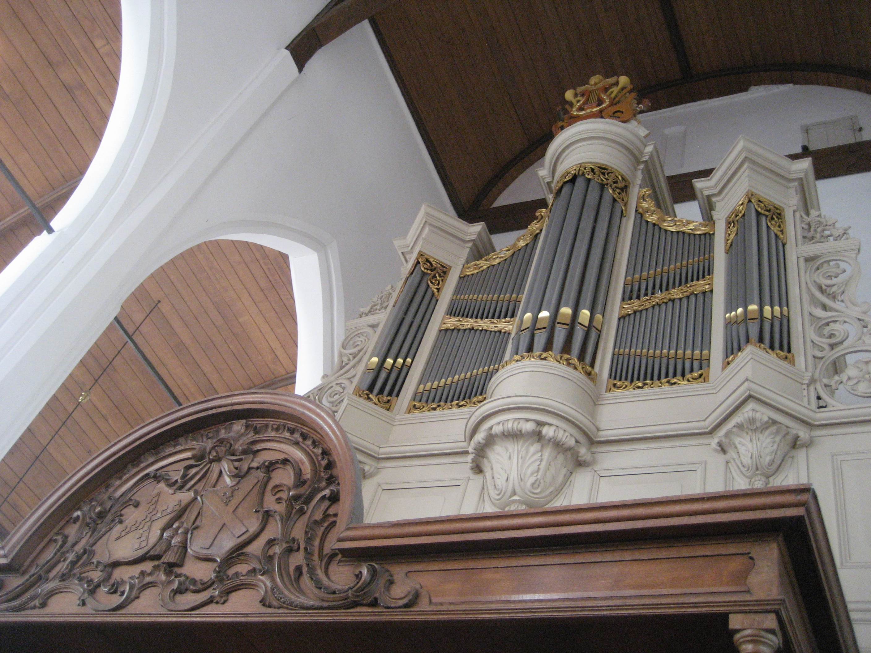 Dorpskerk Abcoude (The Netherlands). Organ